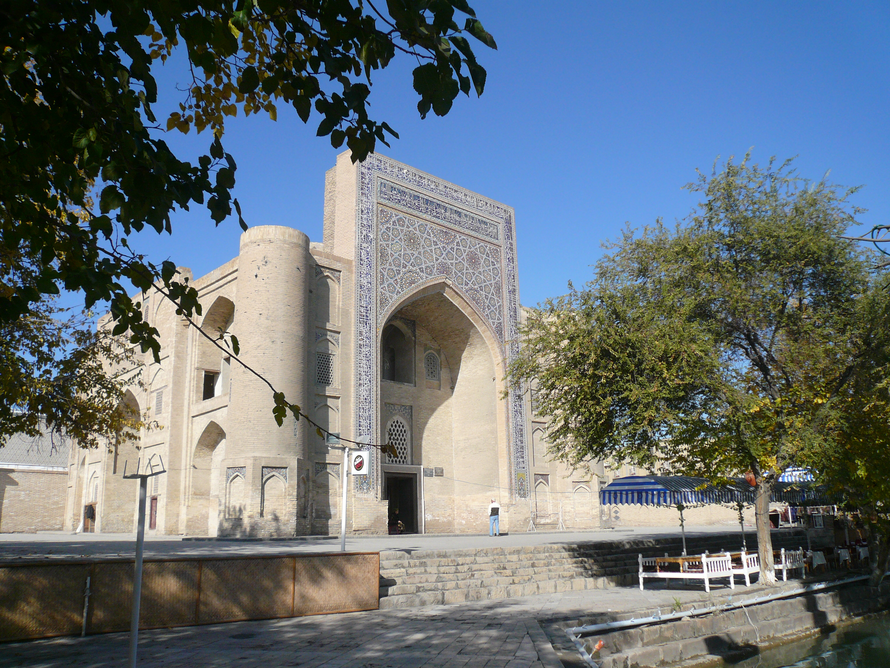 madrasah Khanaka, Bukhara